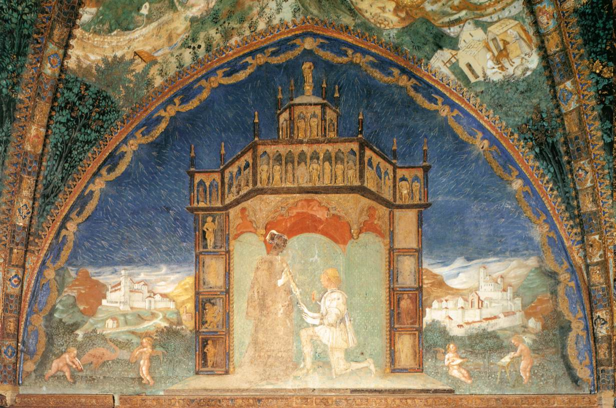 Bianca Handing Pier Maria a Sword